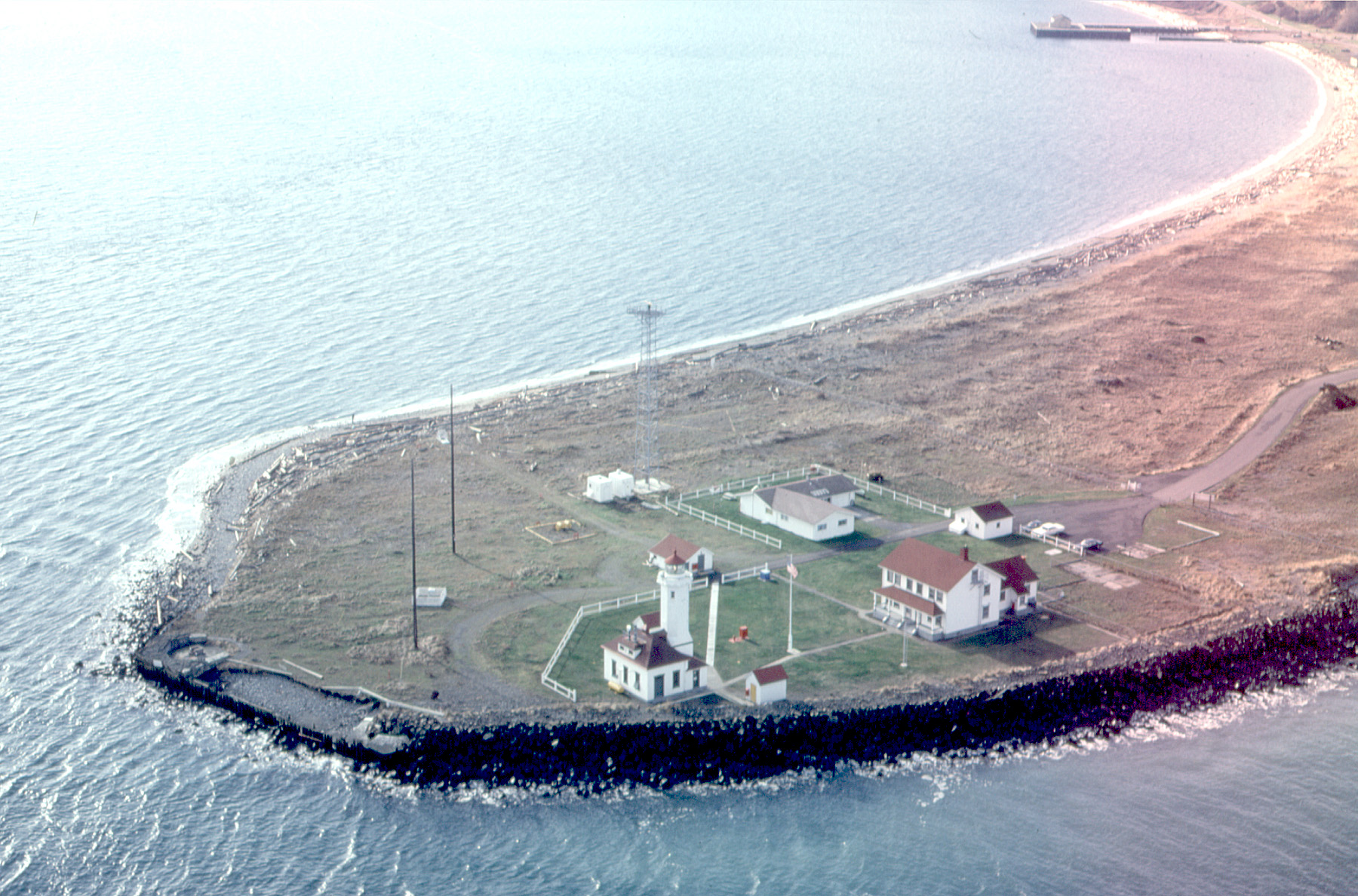 Point Wilson, Washington, with the Point Wilson Lighthouse on the point. View is to the south